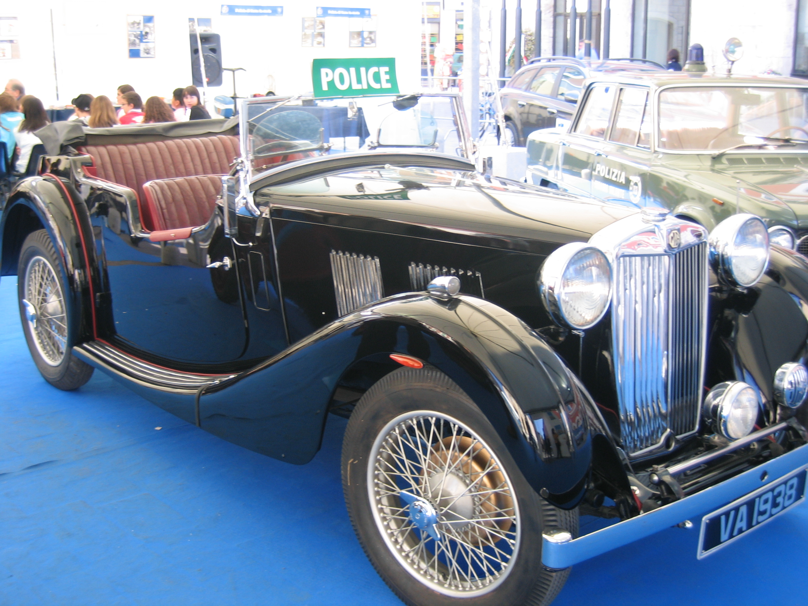 english police MG Tourer, 40s